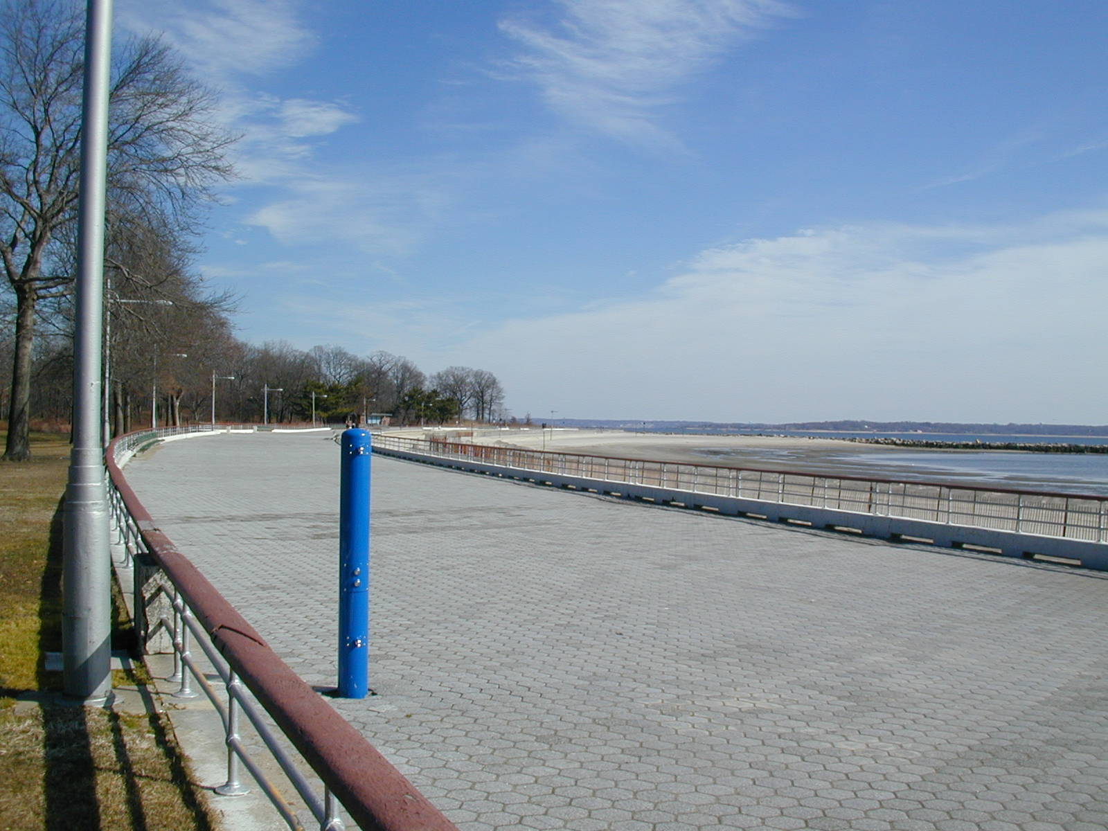 Pelham Bay Park, The Bronx, New York City More Bogdan Migulski Photography.